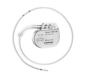 picture implantable cardioverter defibrillator with lead connected into the header showing clearly lead tip and pacing tip and sensing ring